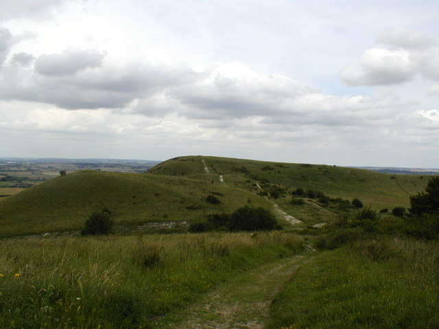 Ivinghoe Beacon from Steps Hill The path over these hills represents the last kilometre of the Ridgeway LDP to Ivinghoe Beacon. The hill to the left in the middle distance is unnamed, and is simply marked as the site of 'tumuli' on OS maps.